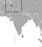 Kashmir White-toothed Shrew (Crocidura pullata) range